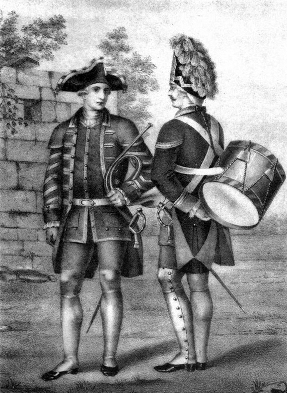 Infantry musicians, 1742-1762.